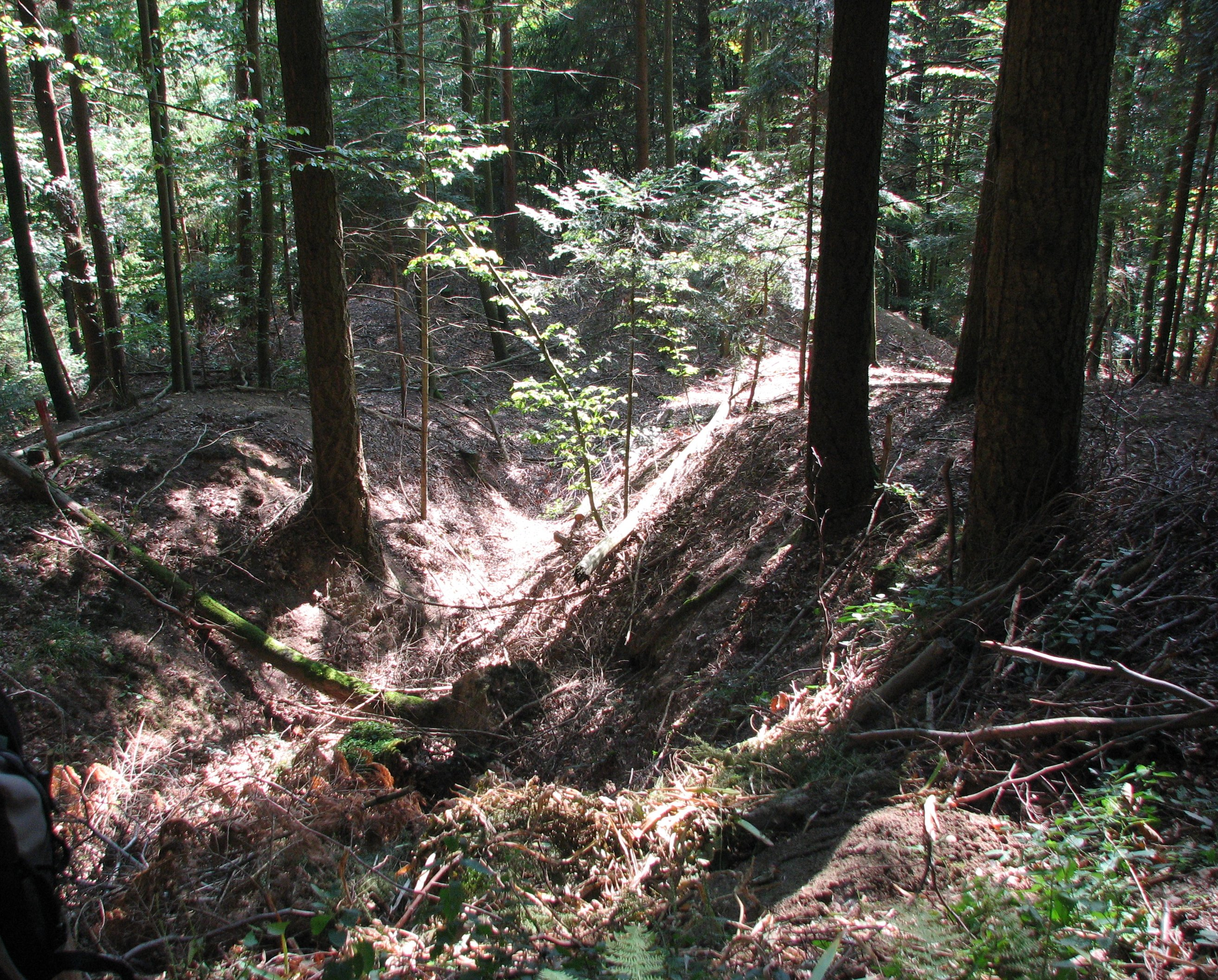 Adit pinge (collapse) dating from the 16th or 17th century with pile, view from above. Black Forest, Germany.